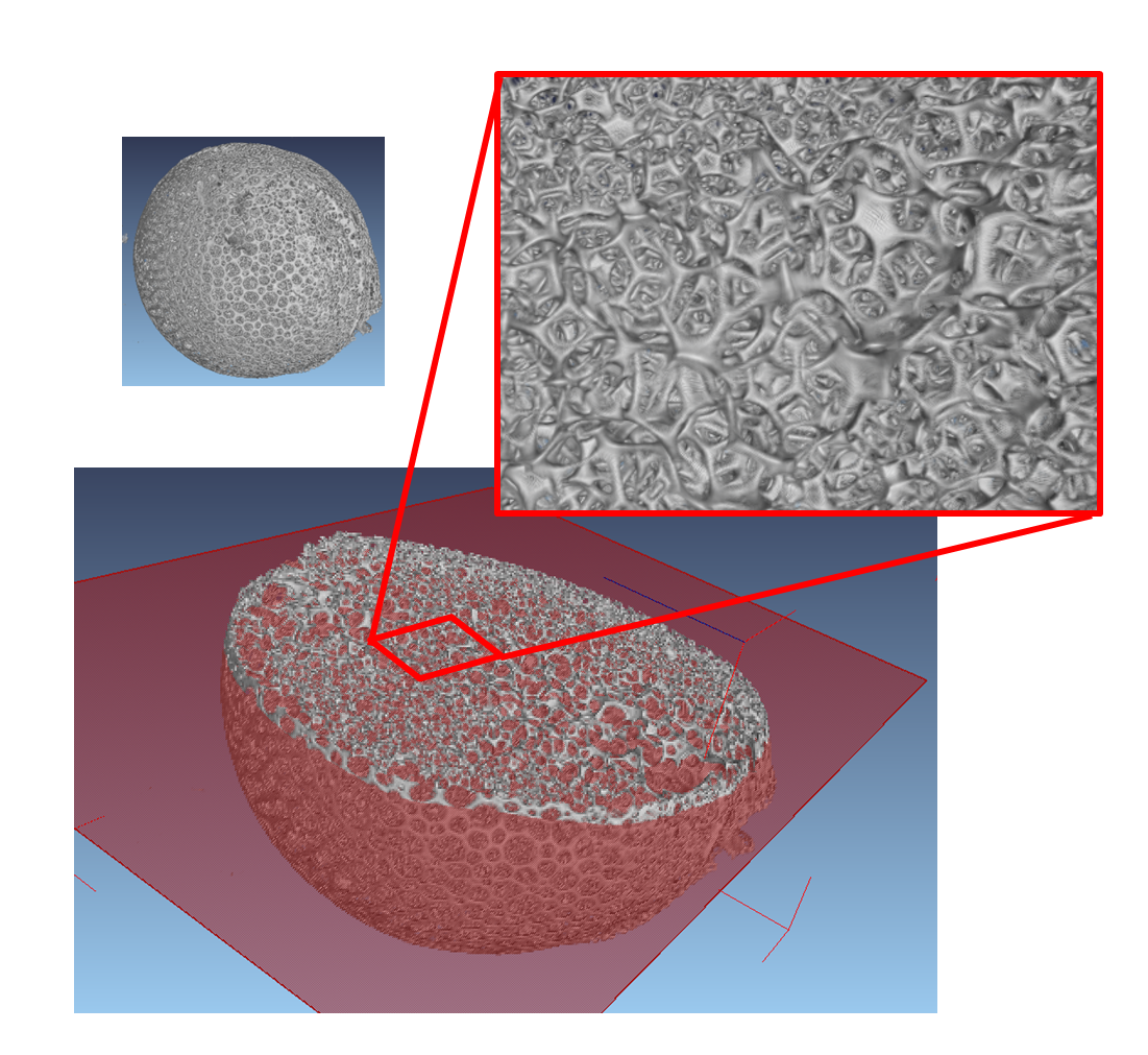 Industrial CT Scan of foam ball.